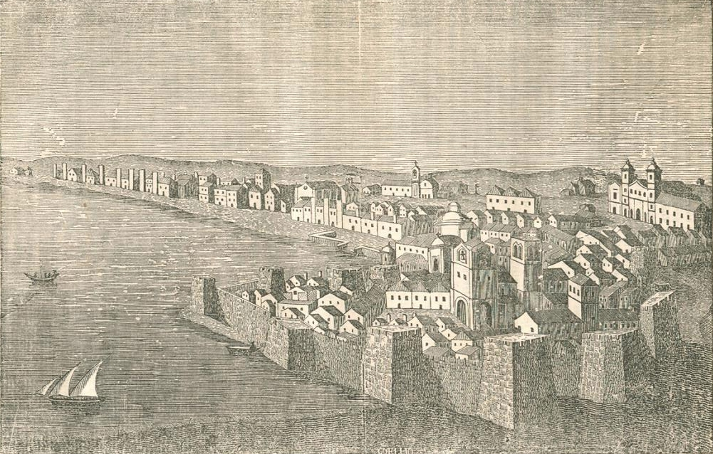 Drawing of the city of Faro, in the Algarve region, Portugal. This image was published in the newspaper O Panorama No. 50, of 10th December 1842, and scanned by Hemeroteca Municipal de Lisboa.